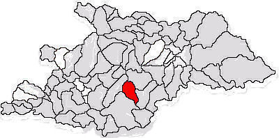 Map of Cupşeni commune in Maramureş